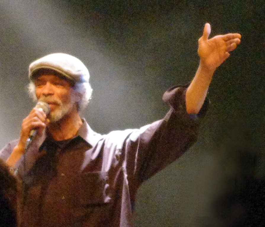 Gil Scott-Heron live at Göta källare, Sweden